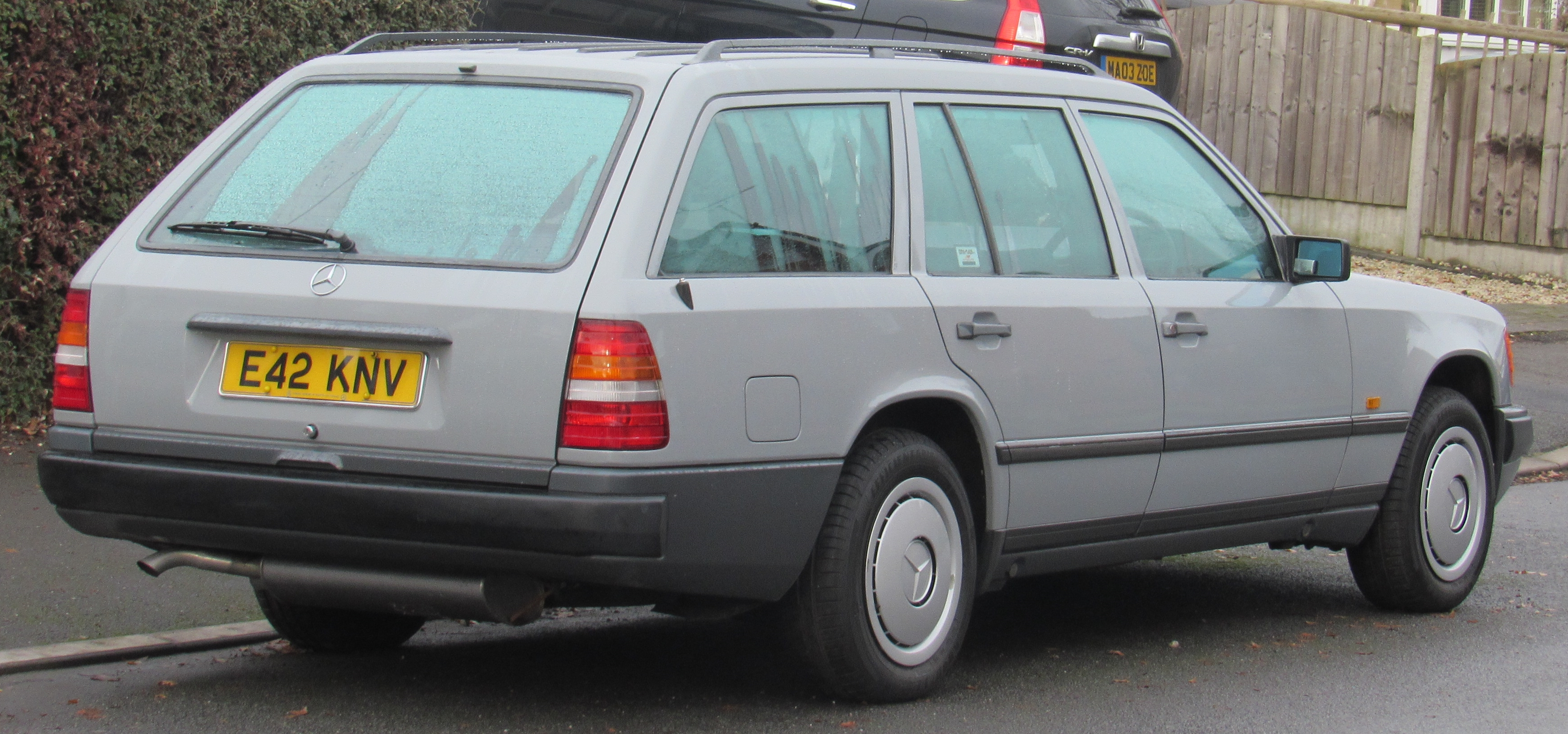 1988 Mercedes-Benz 200T Estate 2.0 Rear Taken in Warwick